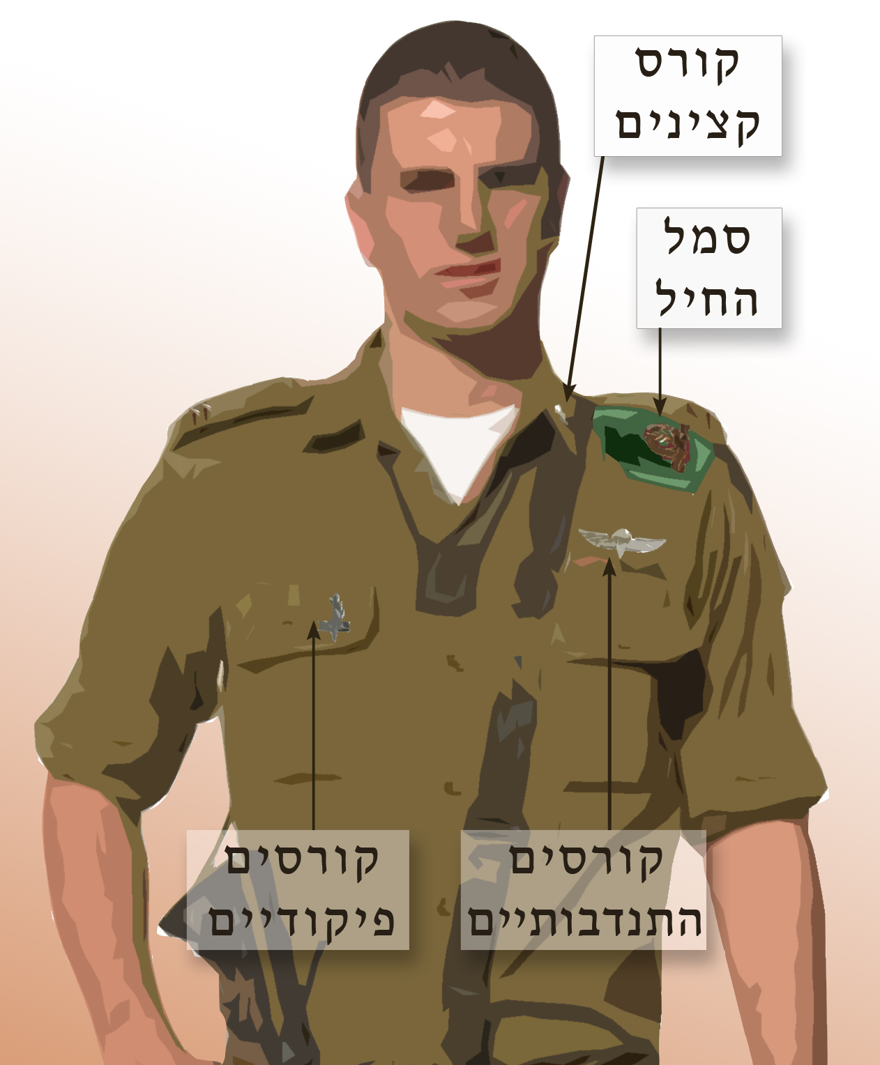 A sketch that describes the right way of wearing the badges.